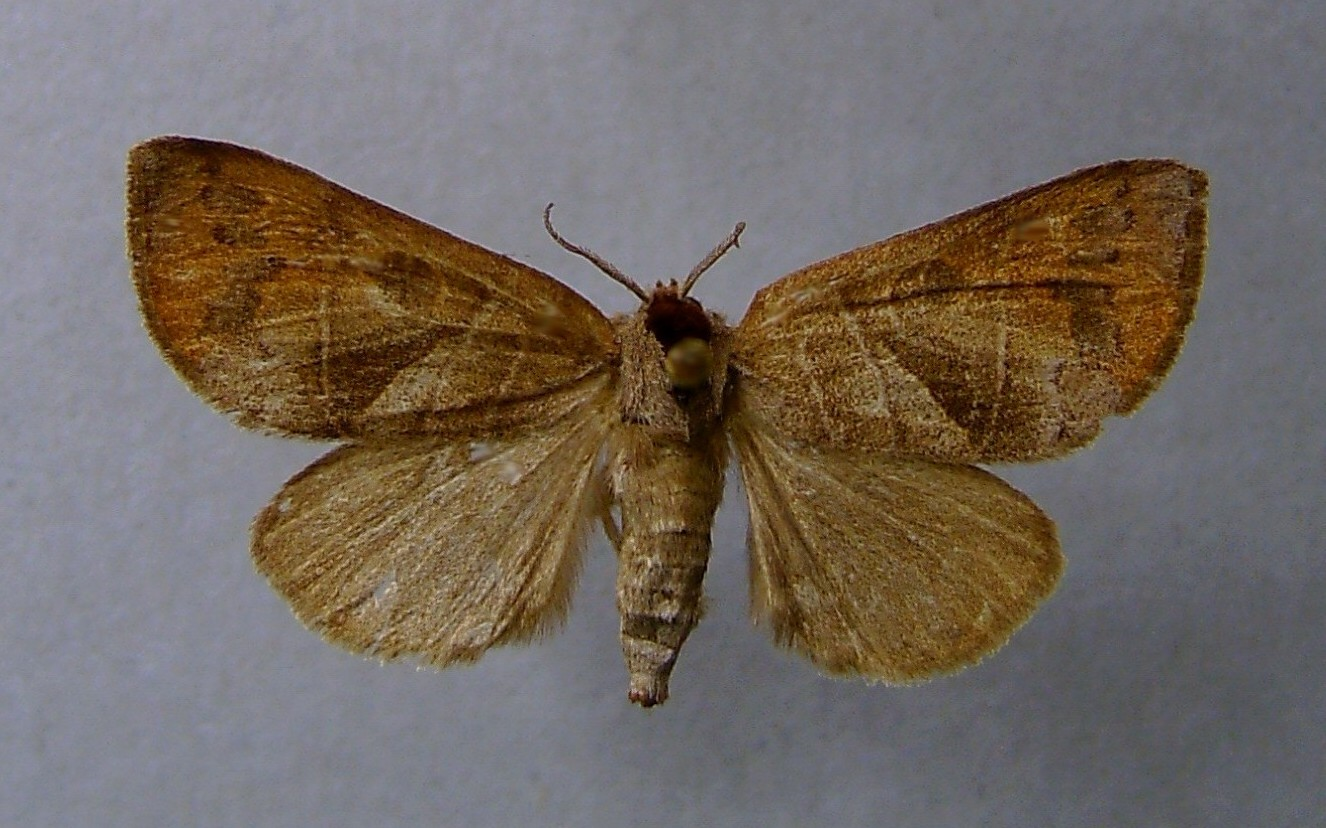 Clostera anastomosis, female Oberweiden Austria